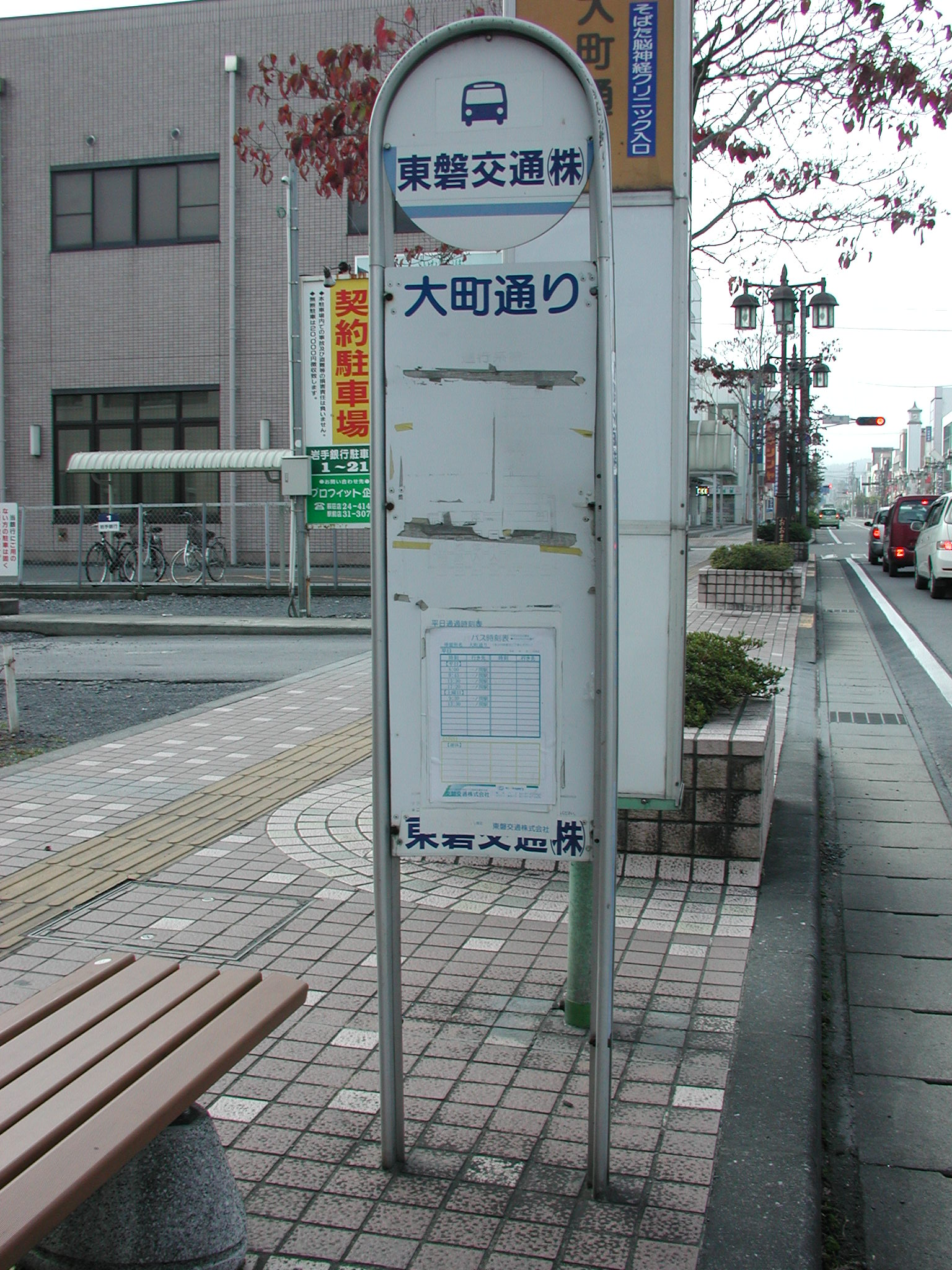 Toban Kotsu Omachi-dori Bus Stop in Ichinoseki City, Iwate Prefecture, Japan